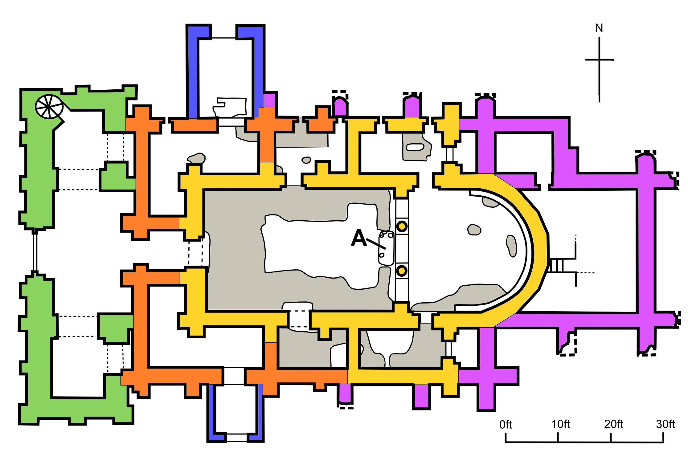 Plan of St Mary's Church, Reculver, after Jessup, R.F., "Reculver", in Antiquity 10 (38), 1936, p. 181, and Peers, C.R., "Reculver: Its Saxon church and cross", in Archaeologia 77, 1927, fig. 4. Key: Yellow - 7th century; Orange - 8th century; Green - Late 12th century; Purple - 13th century; Blue - 15th century; Grey - Original, 7th–8th century flooring; A = Altar